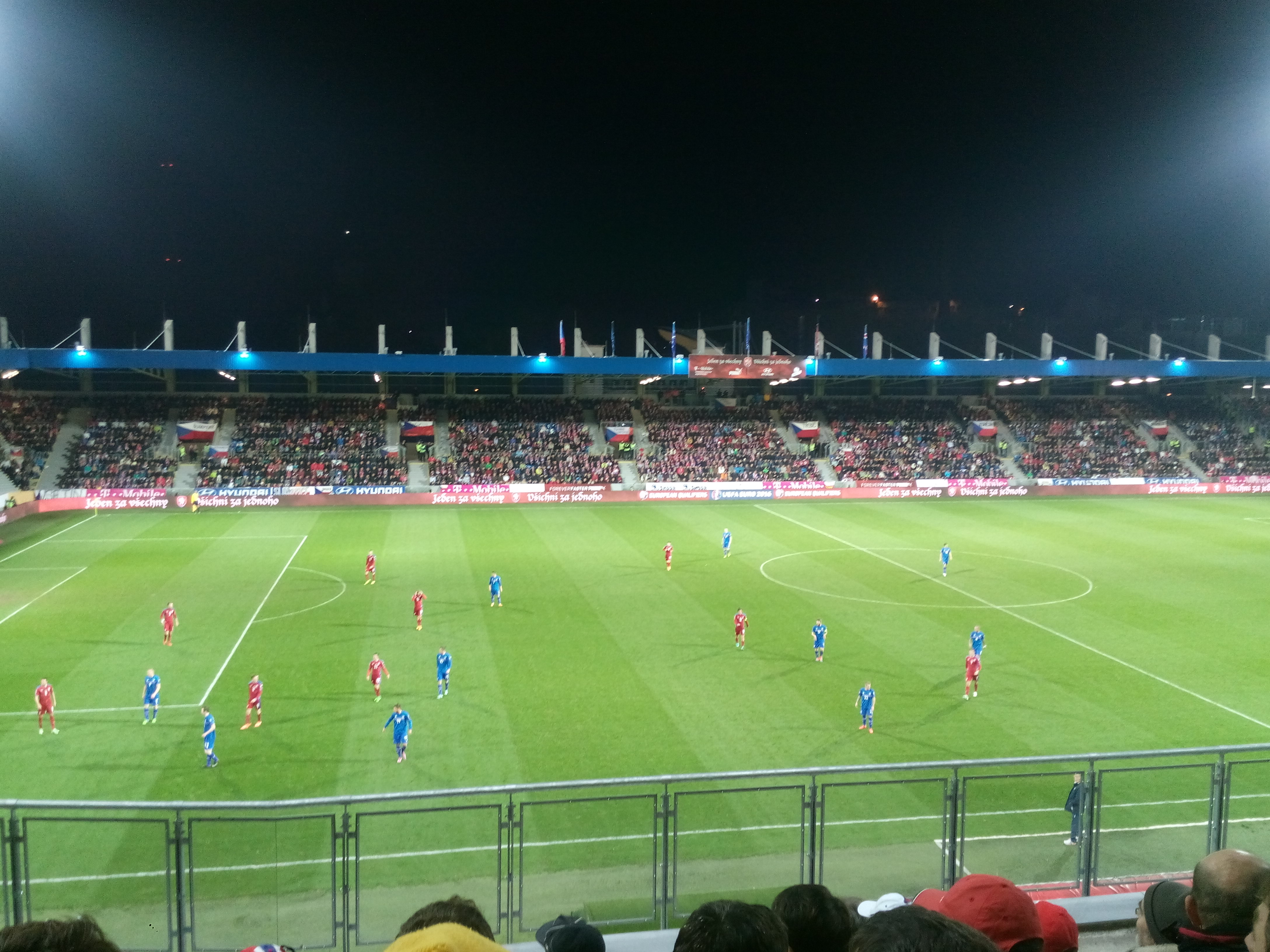 CZ vs Iceland